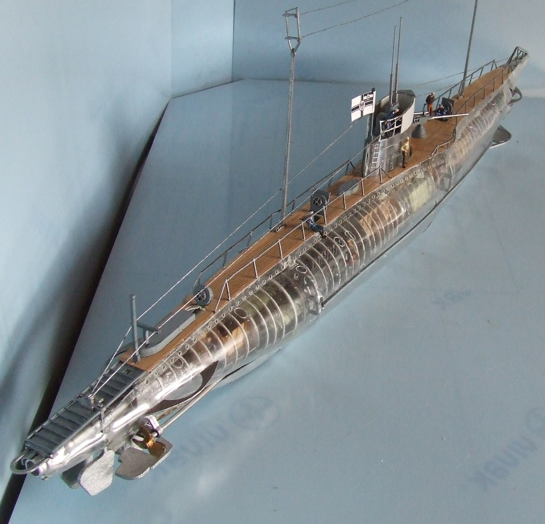 UB III submarine model 1